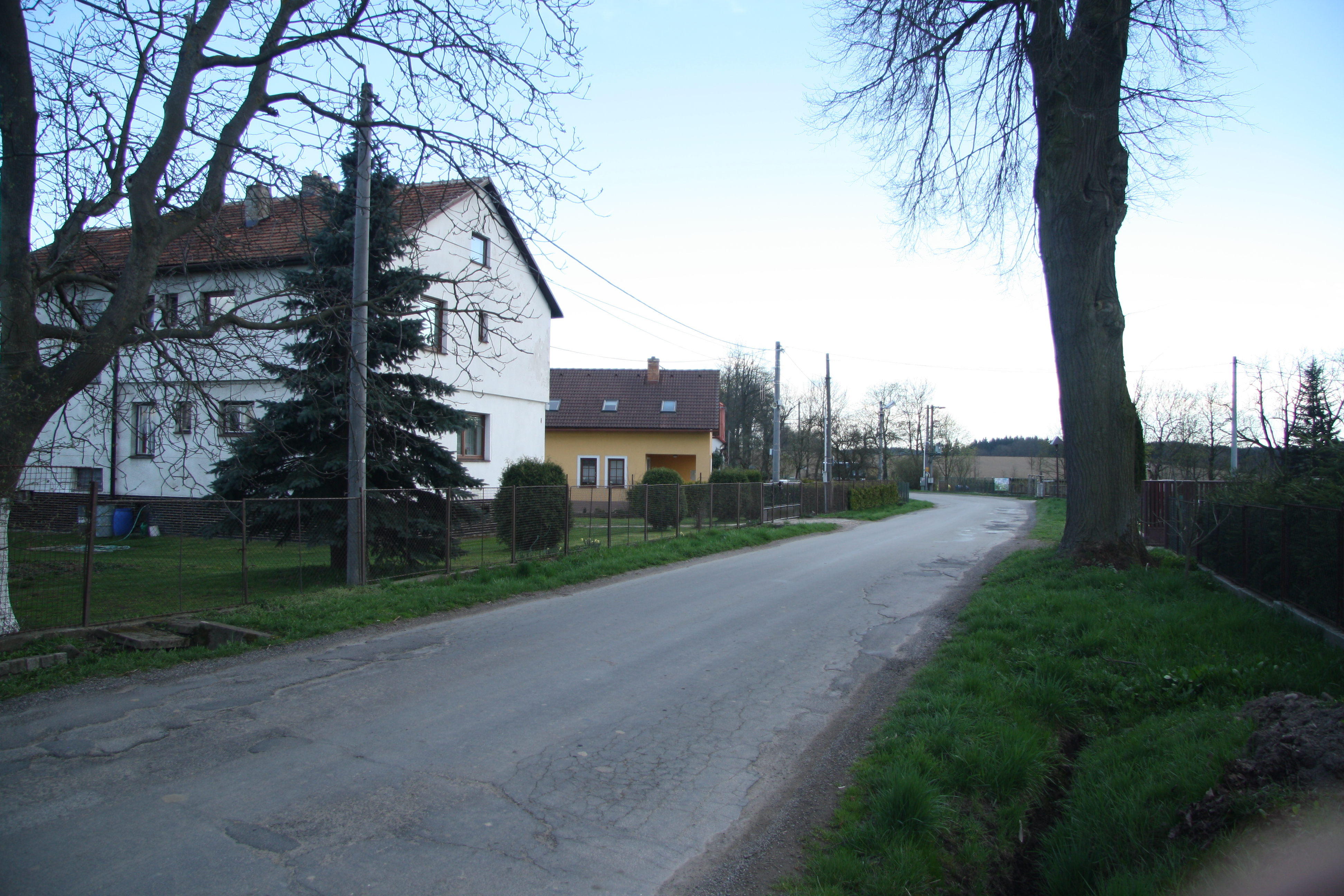 Center of Svatoslav, Luka nad Jihlavou, Jihlava District.